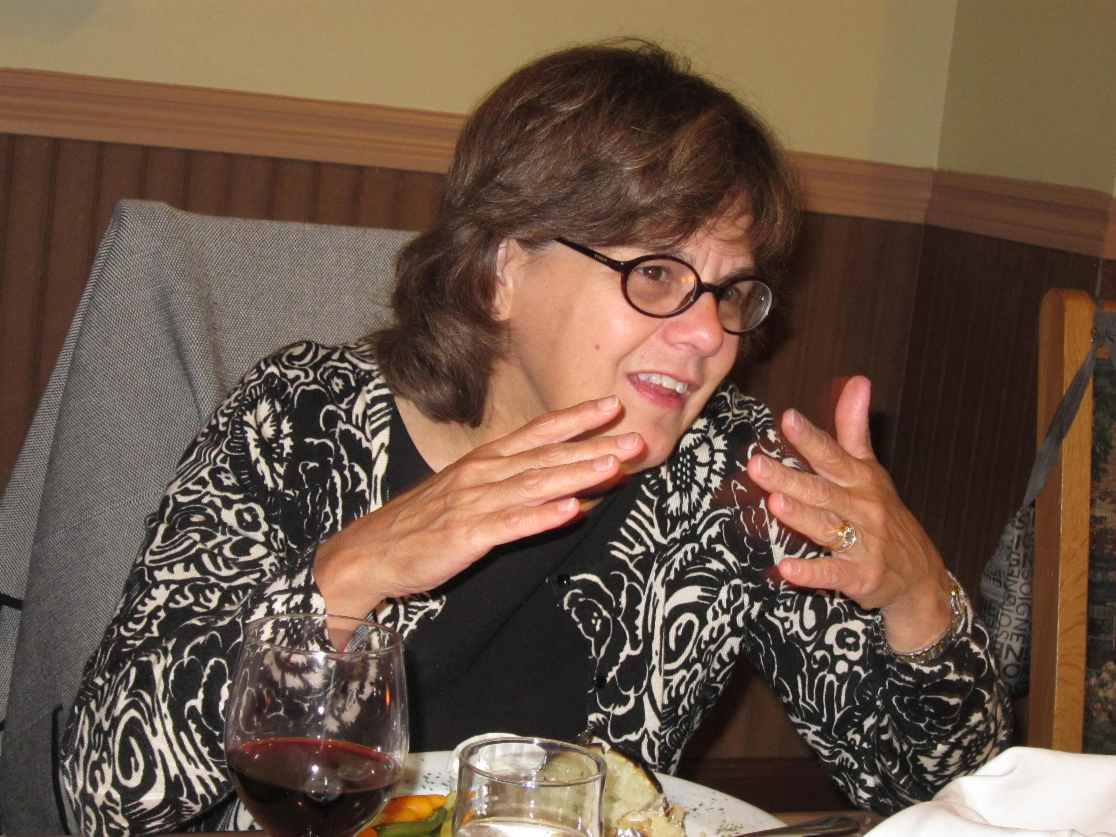 Cynthia Mulrow at the 2011 CONSORT Group Meeting.